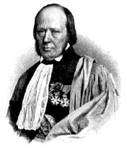 Henri Milne-Edwards